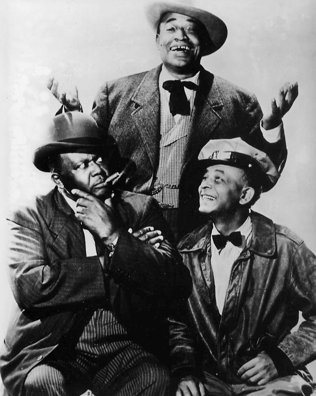 Photo of the main male members of the Amos 'n' Andy television program cast. From left: Spencer Williams, Tim Moore and Alvin Childress.